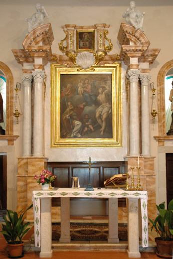 Large altar of the Church of Saints Fabiano and Sebastian, Fiamognano, Italy after decorative restoration